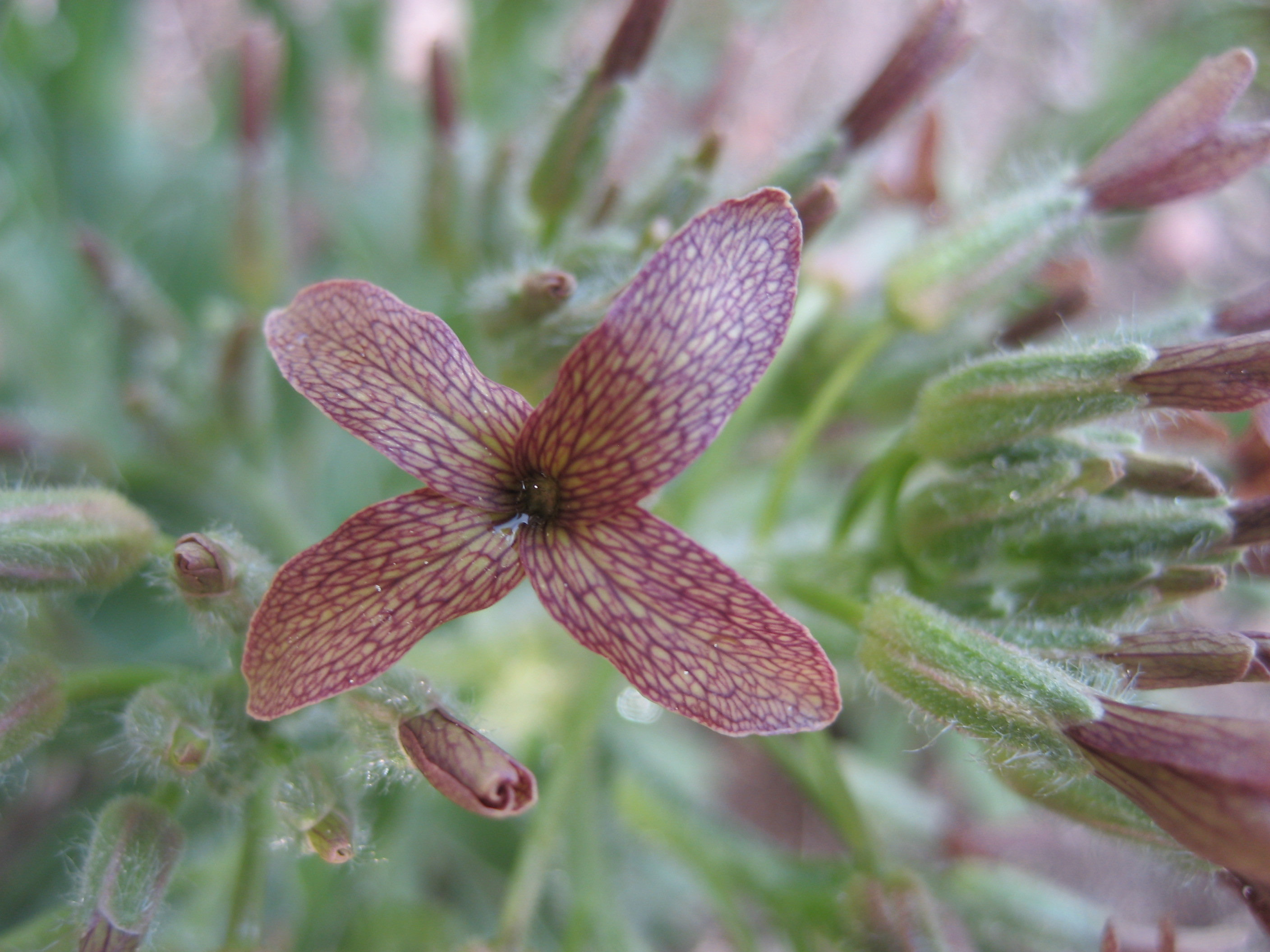 Hesperis tristis flower (Brassicaceae)